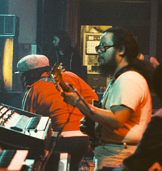 Mikey Chung touring with Peter Tosh on the Bush Doctor tour. Sophia Gardens, Cardiff, Wales, 1978. (Robbie Shakespeare in background).